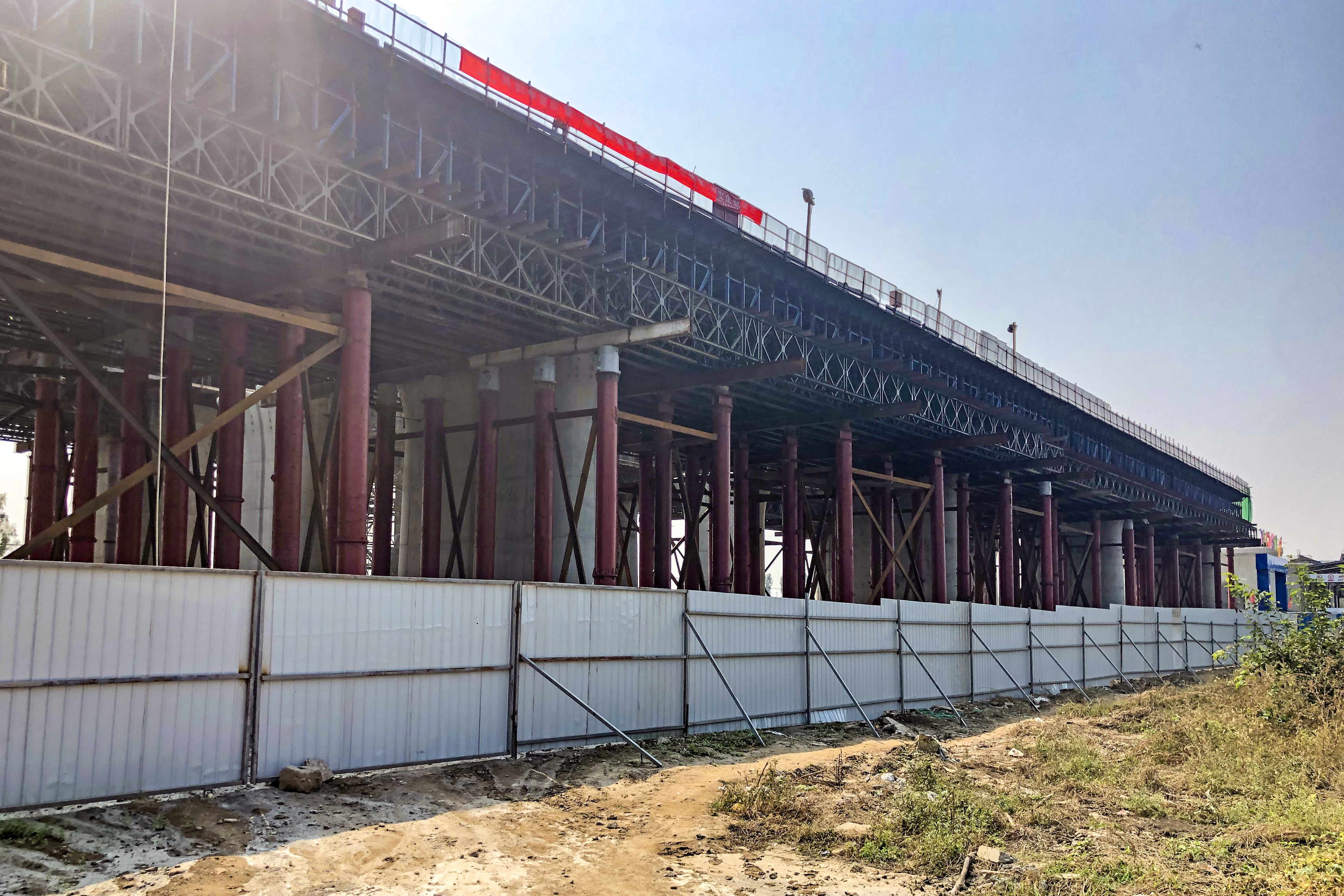 Located in Huayuan village, Yangsong town, near the new campus of Beijing Film Academy.